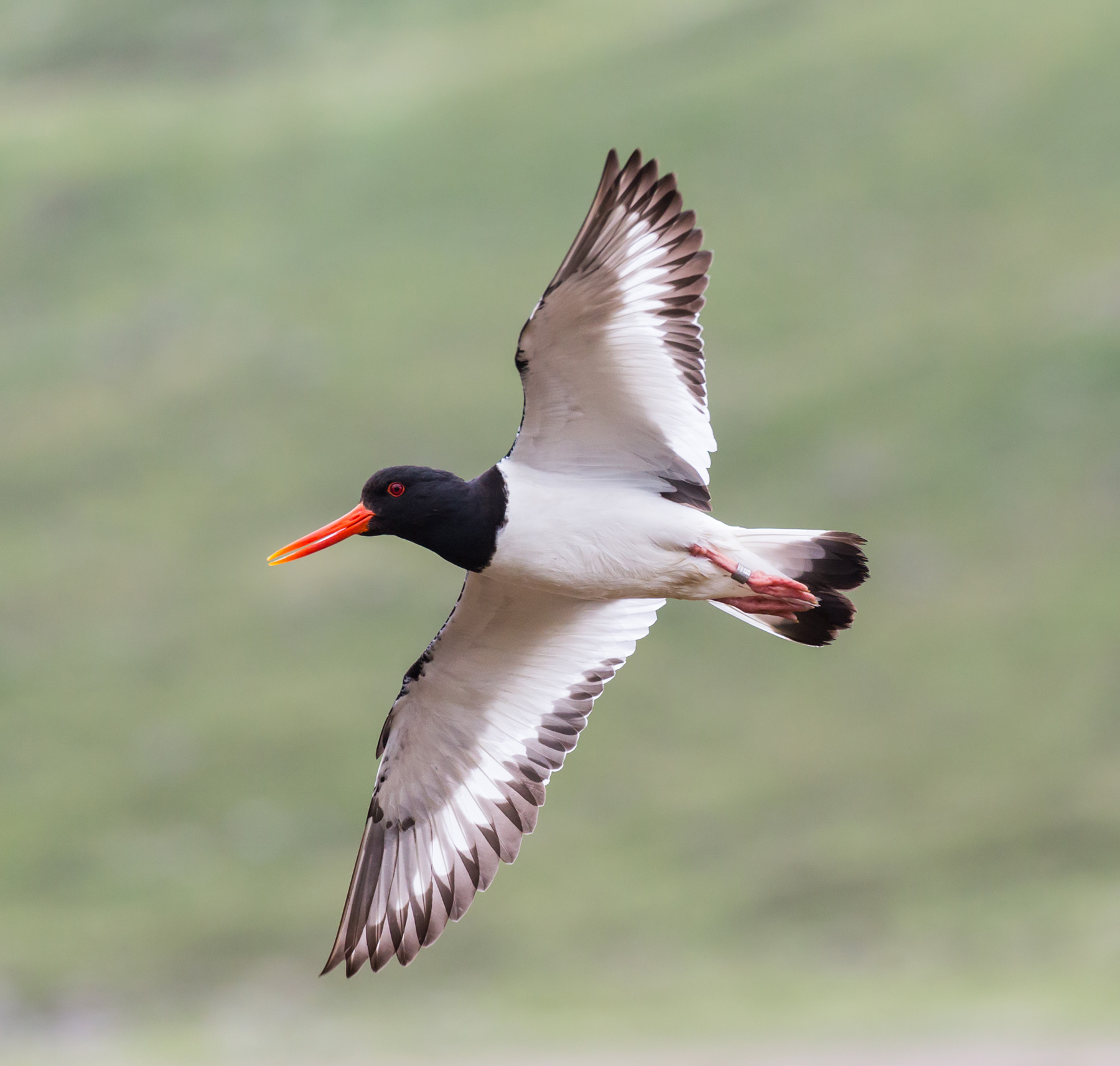 A Haematopus ostralegus (Eurasian Oystercatcher) circling me in an attempt to ward me off as a potential predator. It would also fly straight at me and peel away at the last minute as per this image.